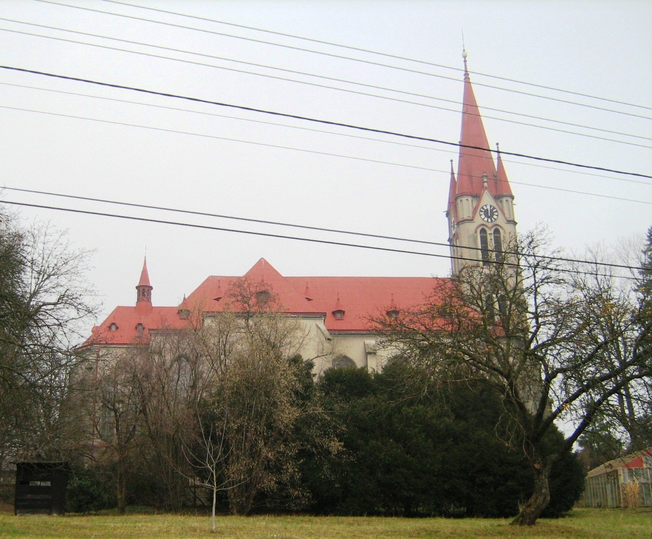 Churche of Saint Anne in Polanka, Ostrava